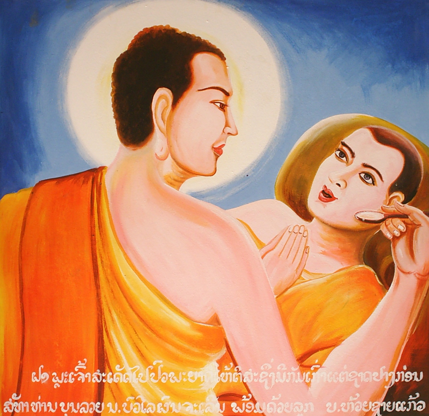 This painting depicts the Buddha taking care of a sick monk. The monk was hesitant about receiving the Buddha's help, because the monks in the monastery where he was living didn't help him, so why would the Buddha? But the Buddha did help the sick monk and said every monk ought to take care of his fellow monks when they get sick.